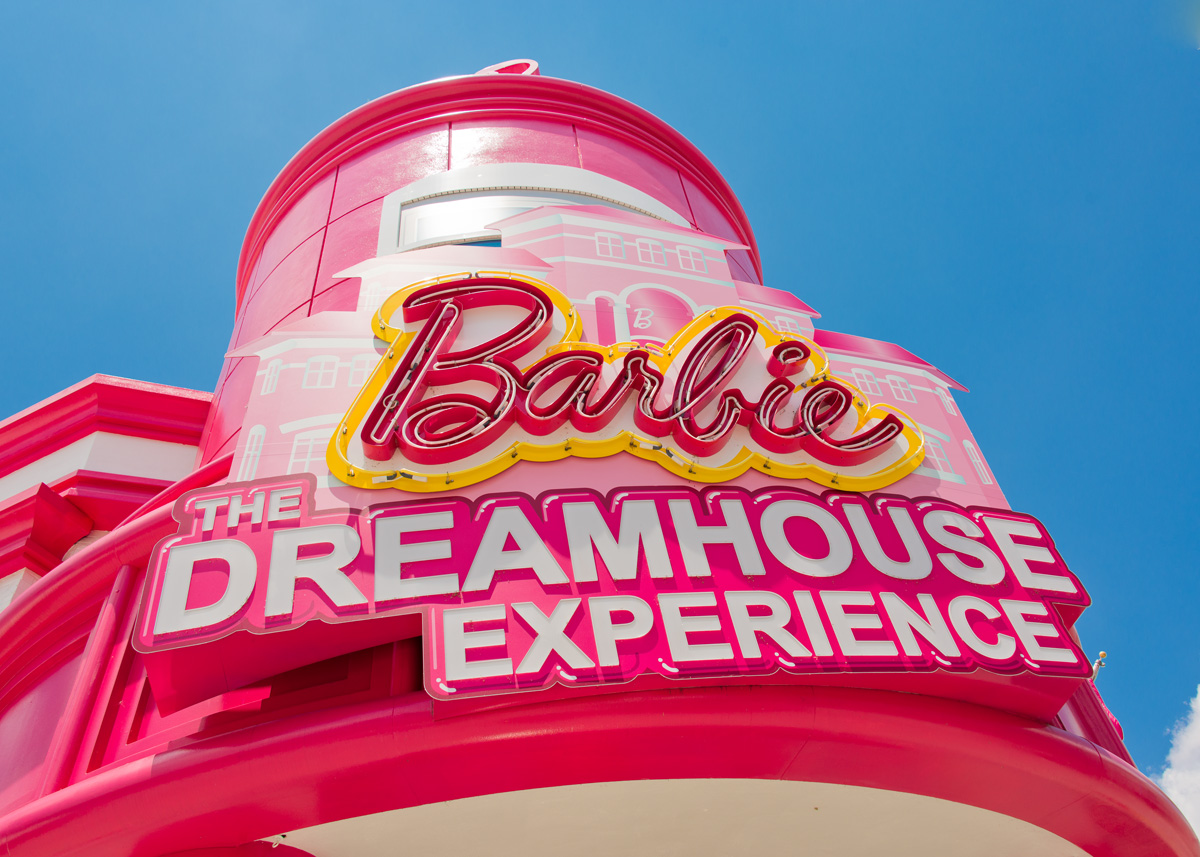 Image of the Barbie Dreamhouse Experience sign in Sawgrass Mills mall Ft. Lauderdale Florida USA